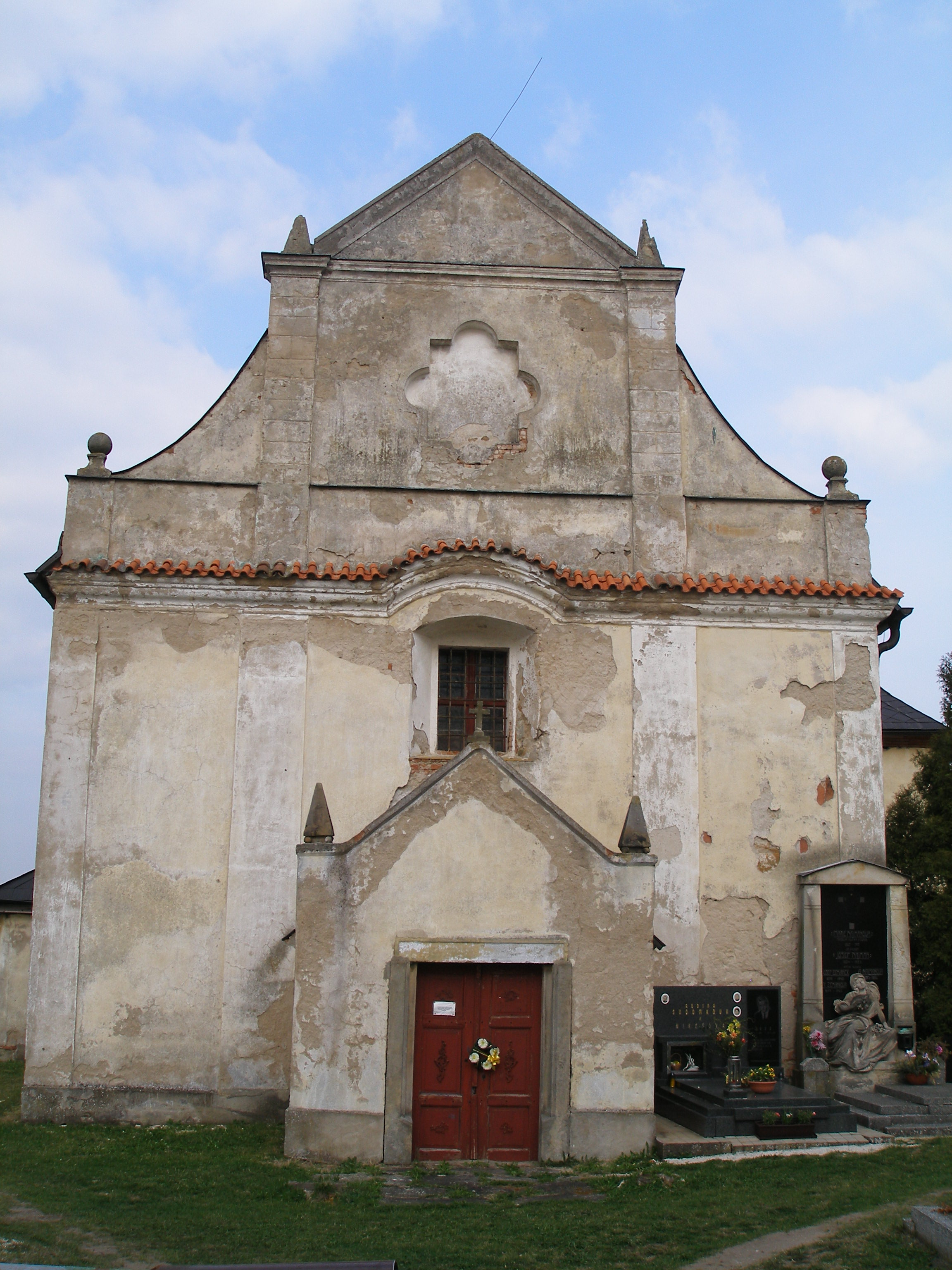 Holy Trinity church in Všeborsko.